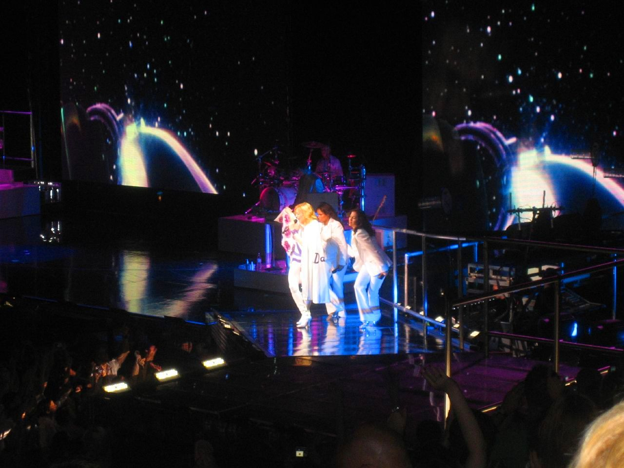 Madonna performing "Lucky Star" on the Confessions Tour.